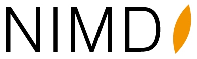 The abbreviated logo of the Nertherlands Institute for Multiparty Democracy